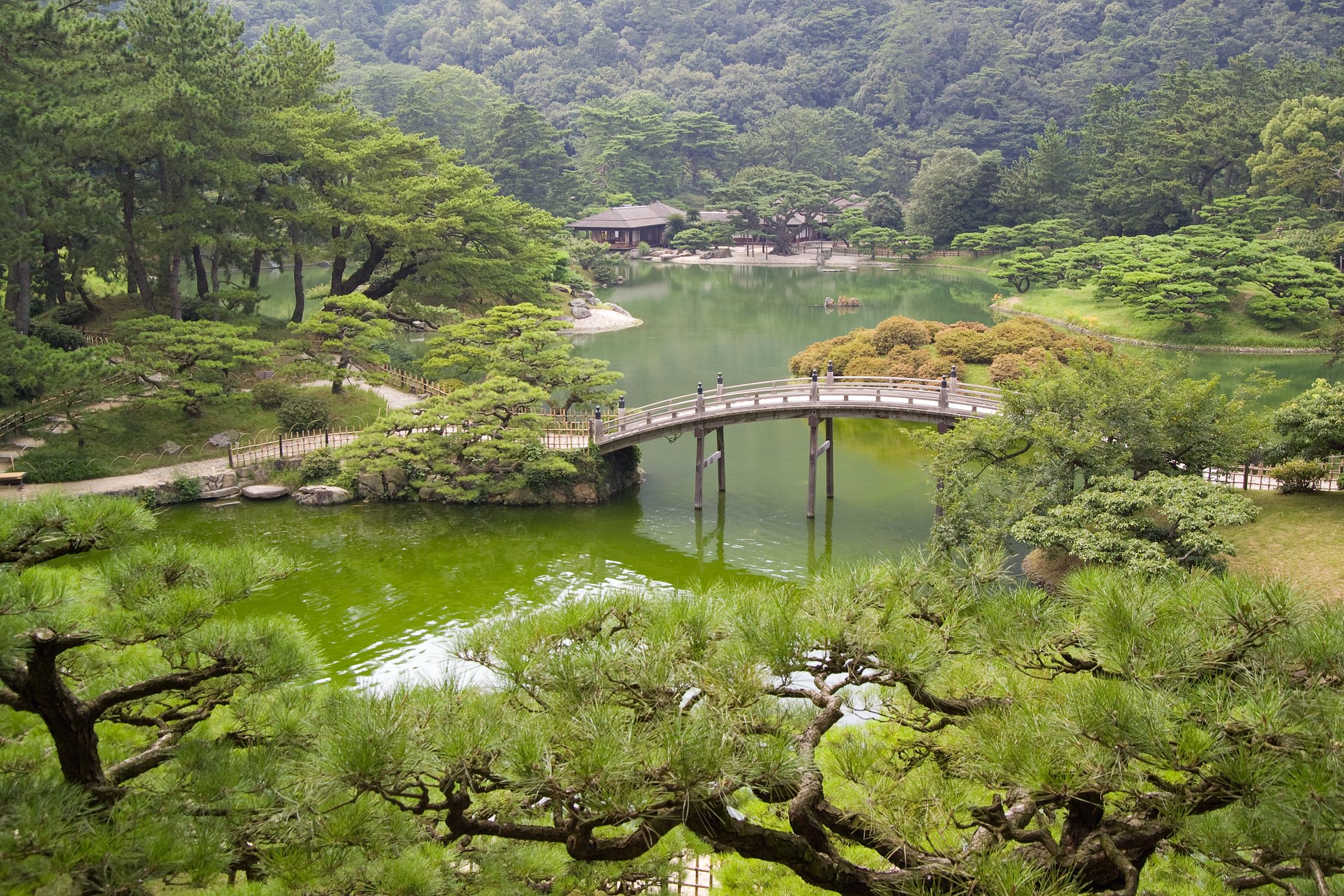 This photograph was taken in the city of Takamatsu, Kagawa prefecture, Japan This Japanese Garden is at Ritsurin Garden.